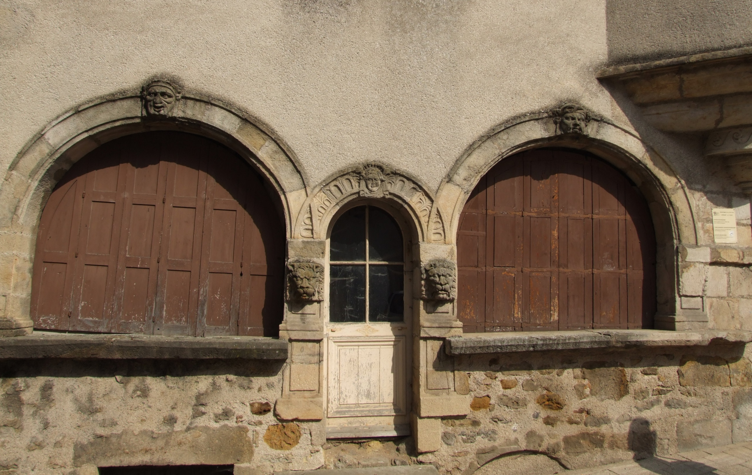 Arnay-le-Duc, Burgundy, FRANCE